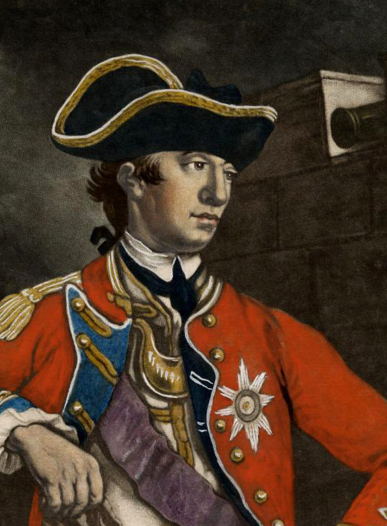 Cropped version of a color mezzotint of General Sir William Howe, 5th Viscount Howe, active in the American Revolutionary War